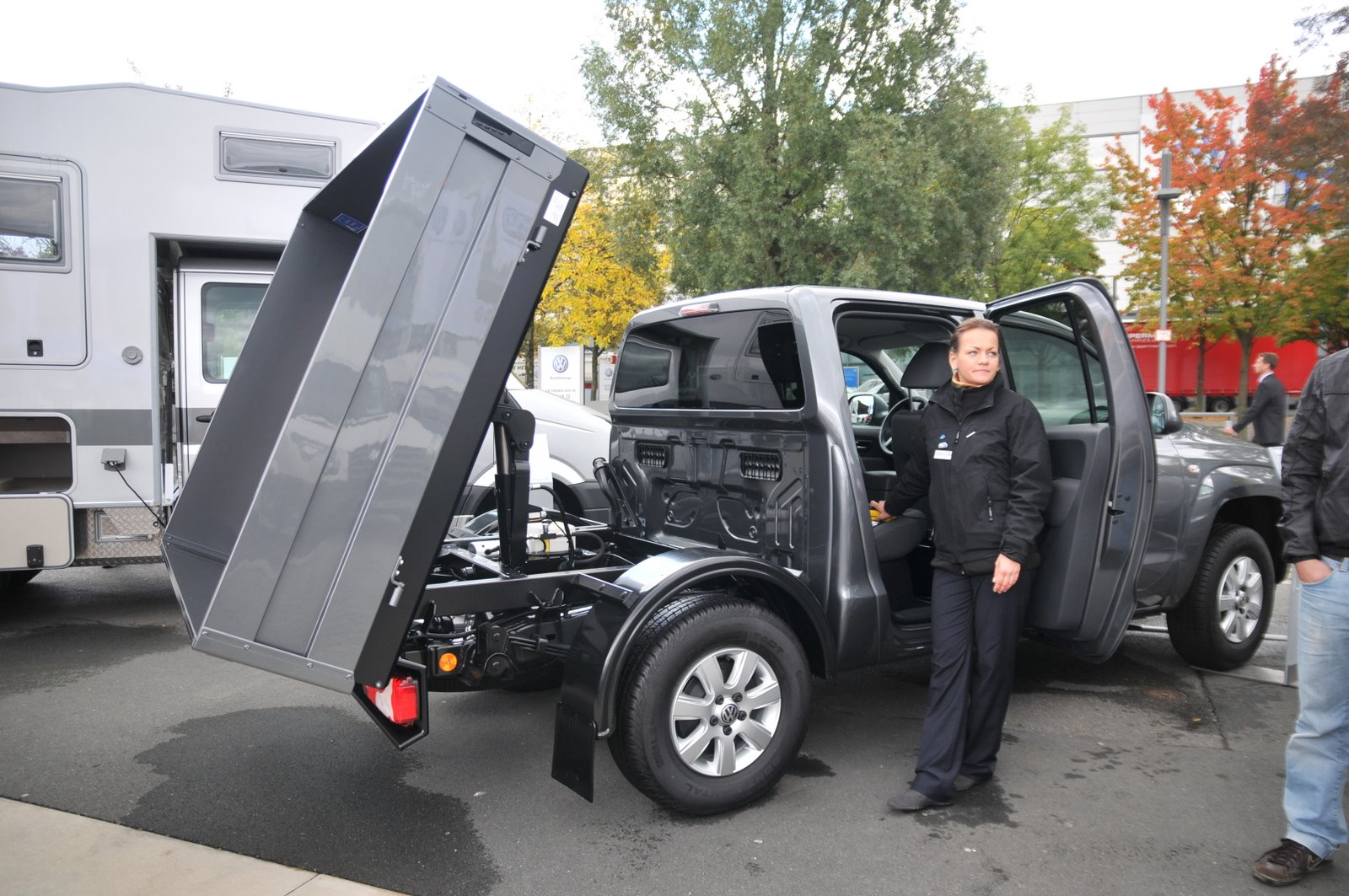 VW Amarok as Tipper